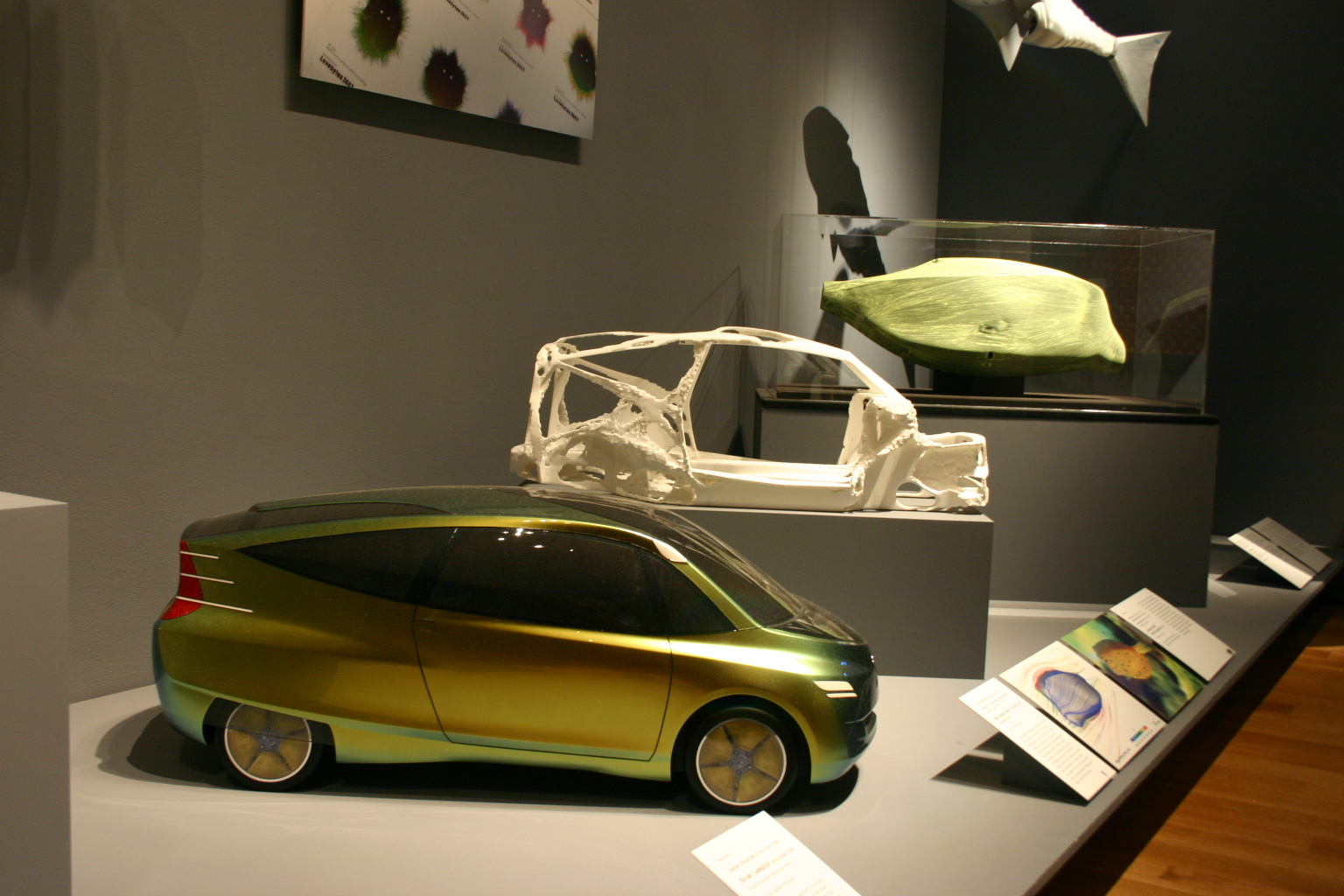 Mercedes-Benz bionic car at Metropolitan Museum of Modern Art: Design and the Elastic Mind